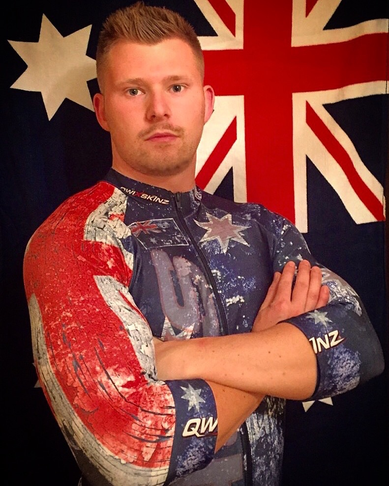 Aussie Team Photoshoot